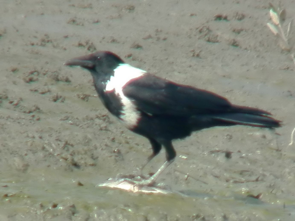 Saw at the river side Got a video as well.